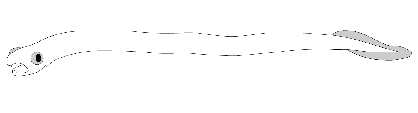 Description: Picture made by mateus zica in October 2005 Mateus Zica Wikipedia User Page is: This image is free to use in anywhere. If you gonna use it ,just send me a email telling me where its gonna be used.Thanks. Source: Mateus Zica